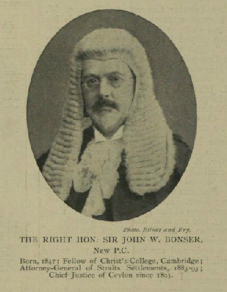 A photographic portrait of Sir John Winfield Bonser (24 October 1847 – 9 December 1914), a British barrister of Lincoln's Inn, colonial lawyer, judge and Privy Councillor. He served as Attorney-General of the Straits Settlements (1883–1893), Chief Justice of the Straits Settlements (1893), and Chief Justice of Ceylon (1893–1902). After being appointed a Privy Councillor in 1901, from 1902 he sat as a member of the Judicial Committee of the Privy Council.